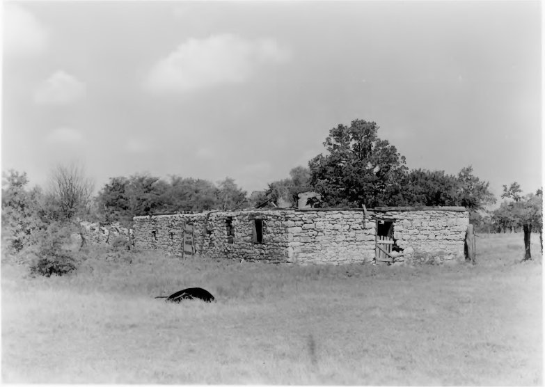 Fort Washita. Foundation to South Barracks, before restoration. Near Durant, Oklahoma, United States of America.